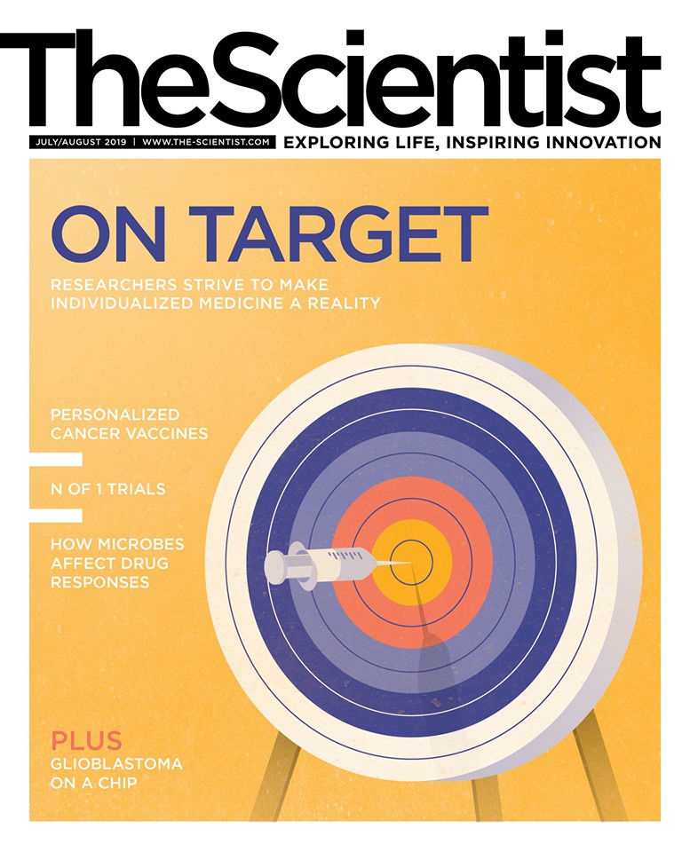 July/August 2019 Cover of The Scientist